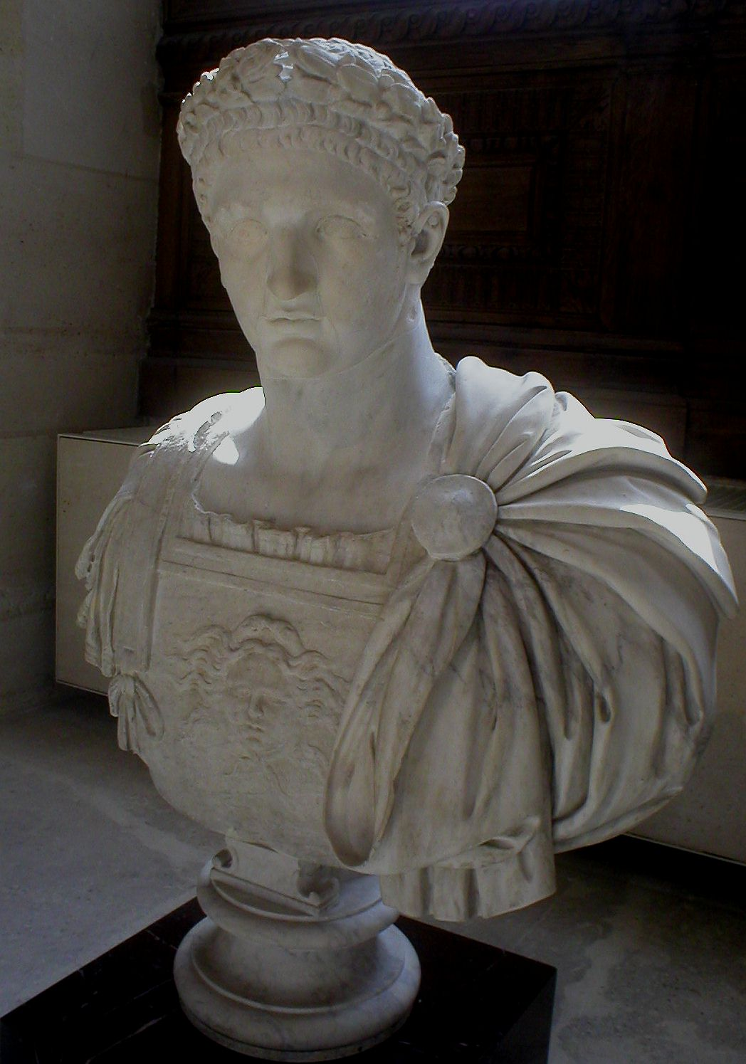 Bust of roman emperor Domitianus. Antique head, body added in the 18th century. Musée du Louvre (Ma 1264), Paris. Formerly in the Albani Collection in Rome. Picture by myself